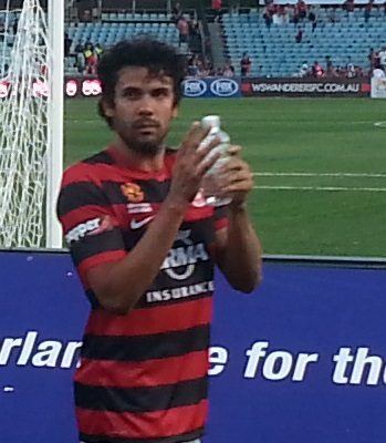 Nikolai Topor Stanley Post Game At Parramatta Stadium